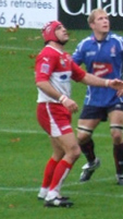 Picture taken December 17, 2006 at Parc des Sports d'Aguilera in Biarritz, France.